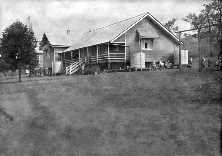 Boonah State School. (Black and white photograph attached to Boonah State School administration file.)